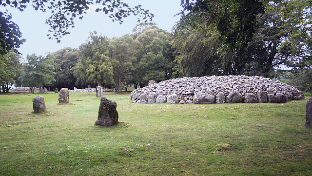 The Three Clava Cairns The nearby cairn has a north-east passageway so that the interior would be illuminated by the setting sun on the shortest day. The cairn furthest away has a south-west passage. The central cairn has no passageway.